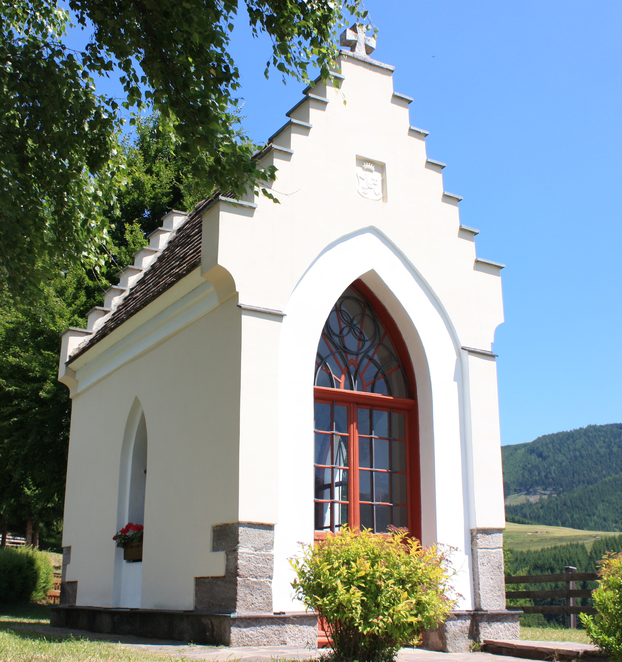 Barbara-chapell Locality:Lölling Community:Hüttenberg